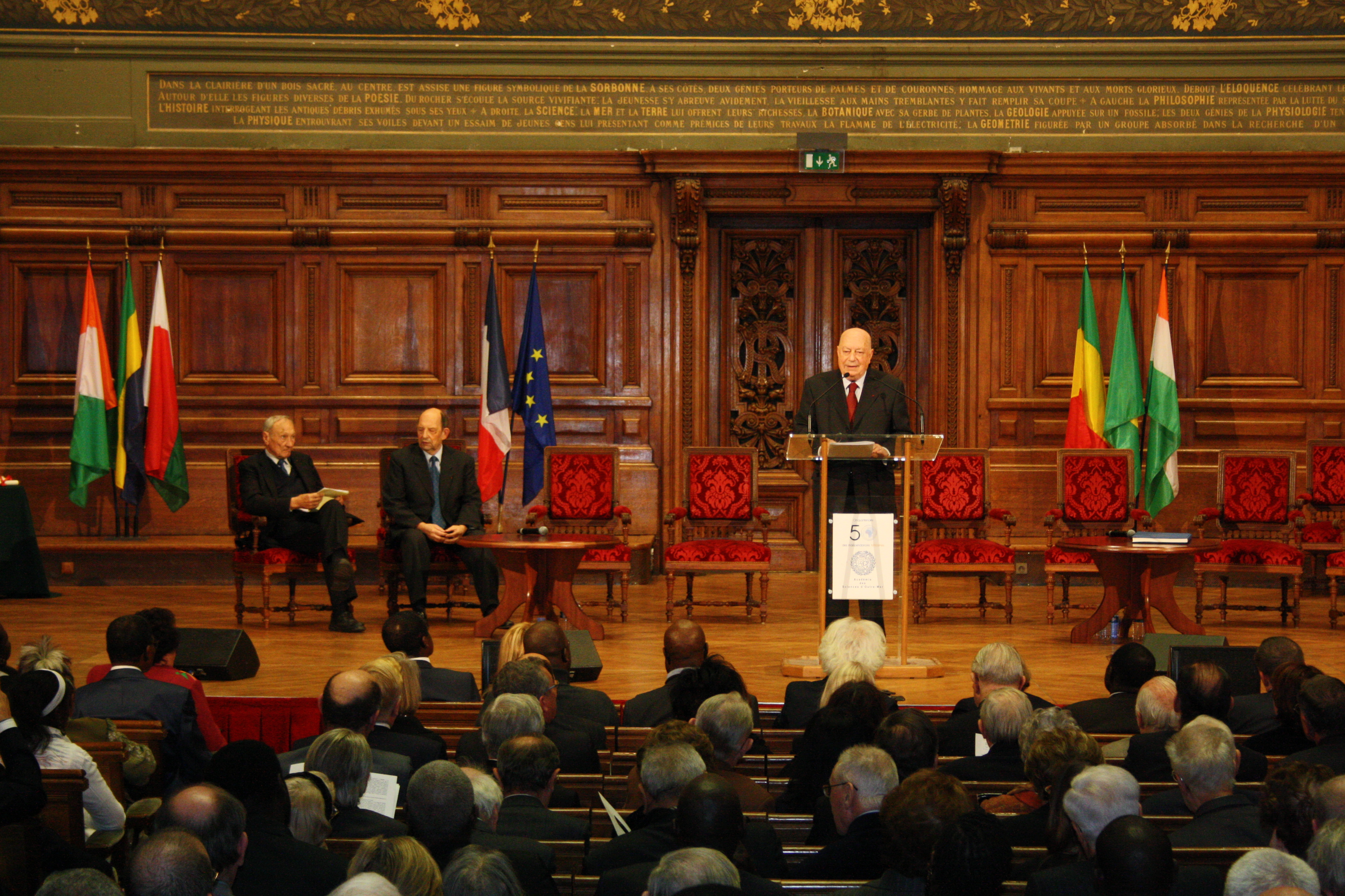 Introduction by Hervé Bourges during the Cinquantenaire des Indépendances Africaines event in the great amphitheatre of La Sorbonne school in Paris, France.